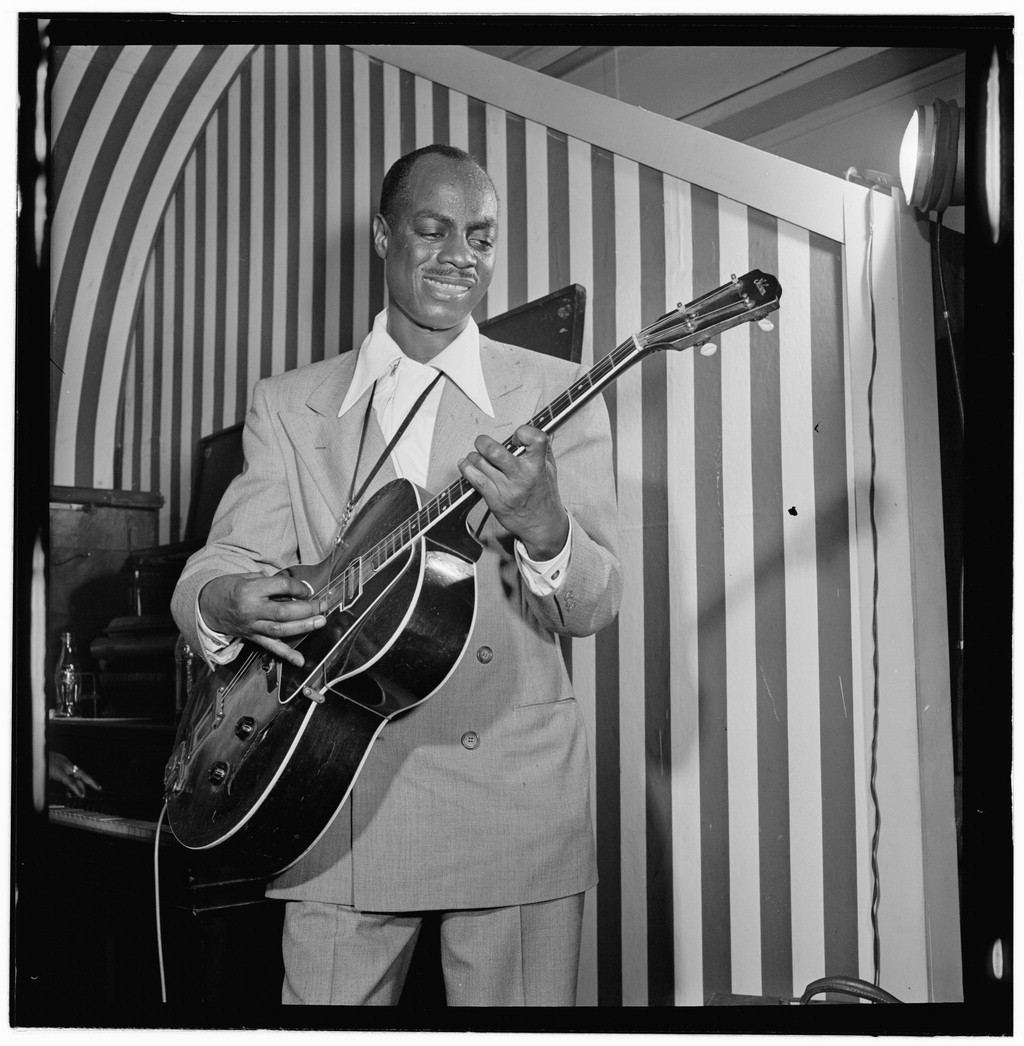 Gottlieb, William P., 1917-, photographer. [Portrait of Tiny Grimes, New York, N.Y., between 1946 and 1948] 1 negative : b&w ; 2 1/4 x 2 1/4 in. Notes: Gottlieb Collection Assignment No. 537 Reference print available in Music Division, Library of Congress. Purchase William P. Gottlieb Forms part of: William P. Gottlieb Collection (Library of Congress). Subjects: Grimes, Tiny, 1917- Jazz musicians--1940-1950. Guitarists--1940-1950. Format: Portrait photographs--1940-1950. Film negatives--1940-1950. Rights Info: Mr. Gottlieb has dedicated these works to the public domain, but rights of privacy and publicity may apply. Repository: (negative) Library of Congress, Prints & Photographs Division, Washington D.C. 20540 USA, (contact print) Library of Congress, Prints & Photographs Division, Washington D.C. 20540 USA, (reference print) Library of Congress, Music Division, Washington D.C. 20540 USA, Part Of: William P. Gottlieb Collection (DLC) 99-401005 General information about the Gottlieb Collection is available at Persistent URL: Call Number: LC-GLB23- 0356 This work is from the William P. Gottlieb collection at the Library of Congress. Rights and restrictions.In accordance with the wishes of William Gottlieb, the photographs in this collection entered into the public domain on February 16, 2010.